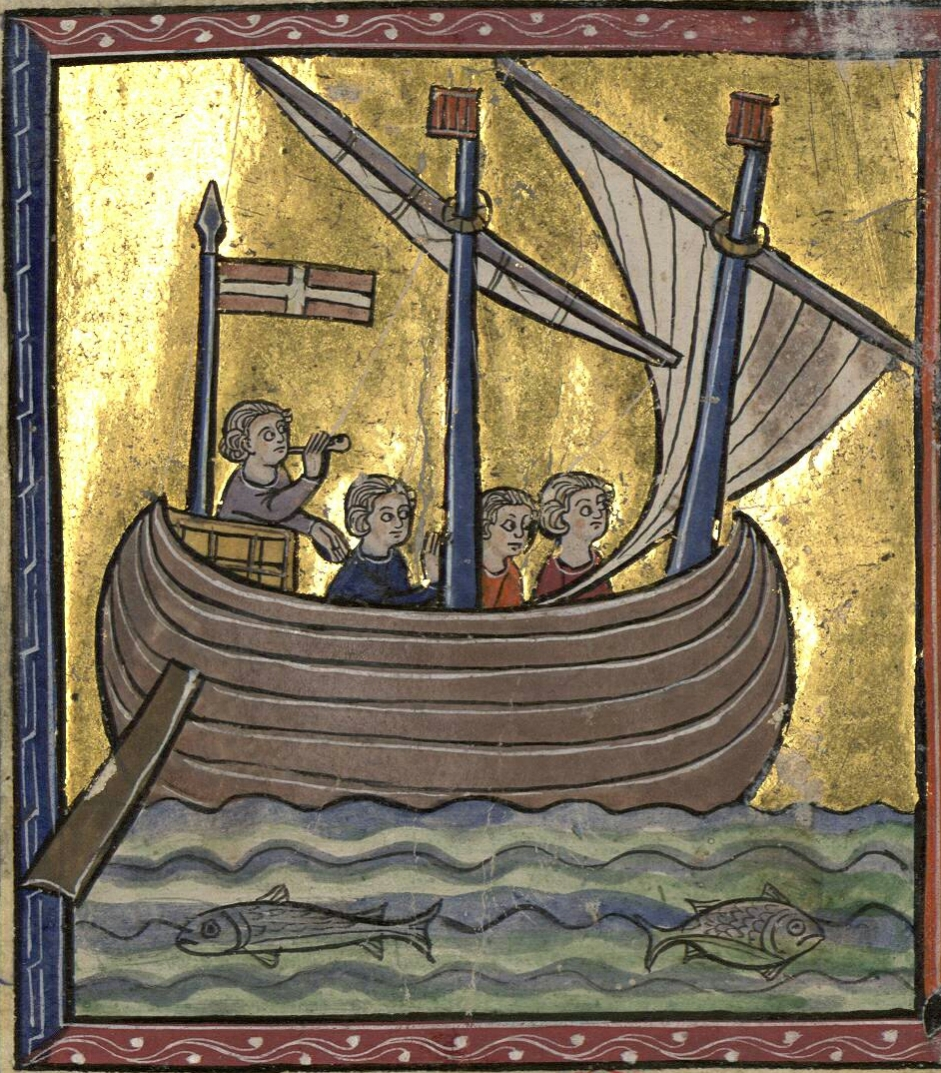 Retour de Bohémond Ier en Italie